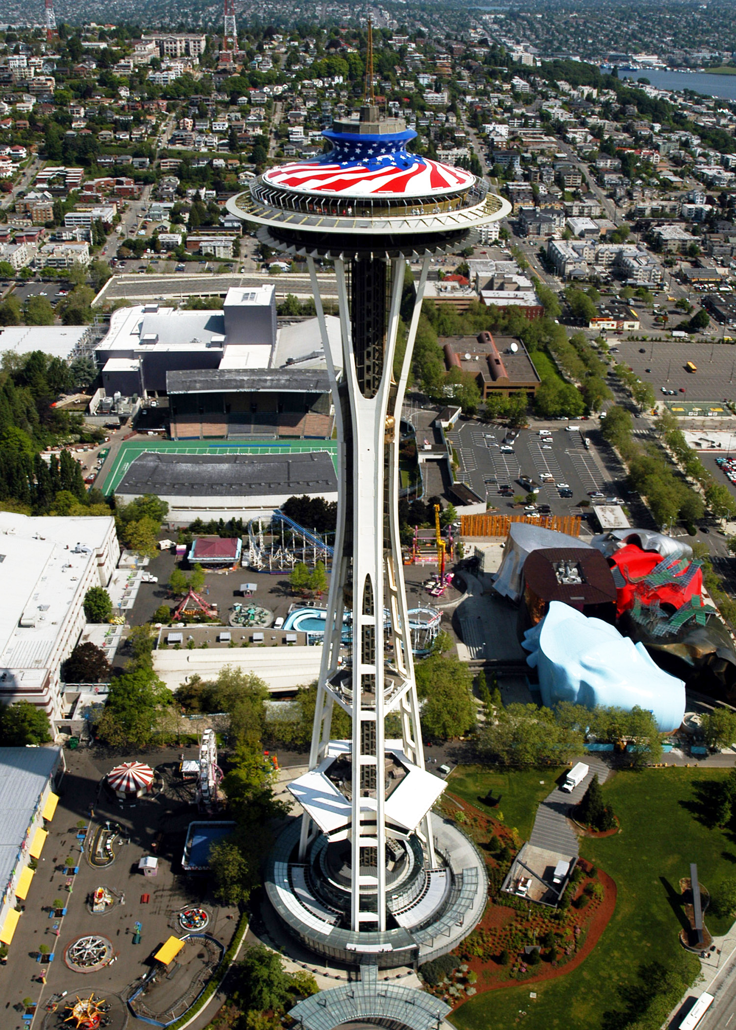 Seattle, Wash. (May 29, 2003) -- Photographed from a UH-3 “Sea King” helicopter assigned to Naval Air Station Whidbey Island Search and Rescue team, the famous Seattle, Space Needle built for the 1962 Seattle World's Fair, stands 620 feet tall with revolving restaurants and a 360 degree observation deck, providing a fabulous view of Puget Sound, Mount Rainier, the Cascade and Olympic mountain ranges and, of course, the beautiful city of Seattle. Recently the top was repainted in a red, white and blue stars and strips as a tribute for this years Memorial Day celebrations. U.S. Navy photo by Photographer's Mate 2nd Class Scott Taylor. (RELEASED)